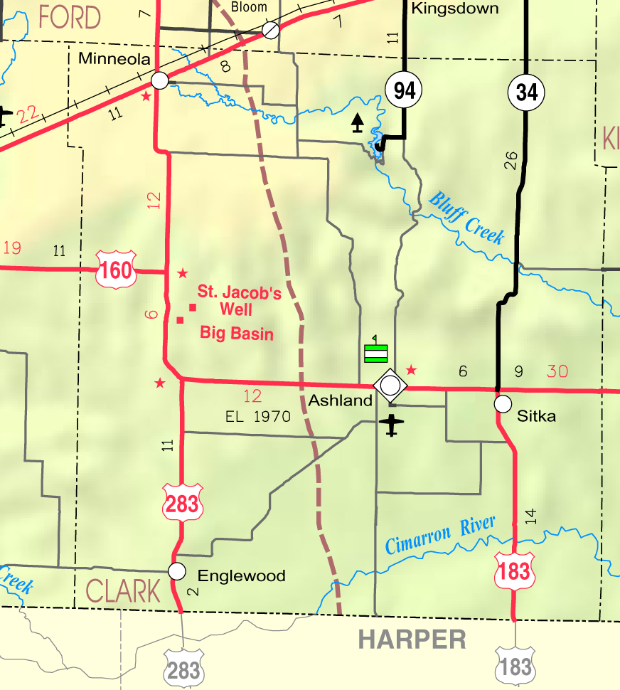 This map of Clark County, Kansas, USA, is copied at a resolution of 300 pixels/inch from the original PDF file.